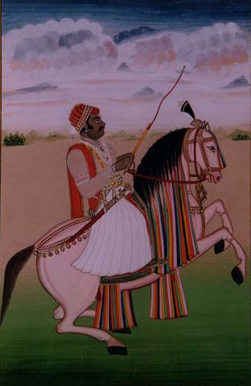 Elizabeth Thelen, "Riding through Change: History, Horses and the Reconstruction of Tradition in Rajasthan", p. 36. Courtesy of City Palace Museum, Jaipur. University of Washington Digital Library.